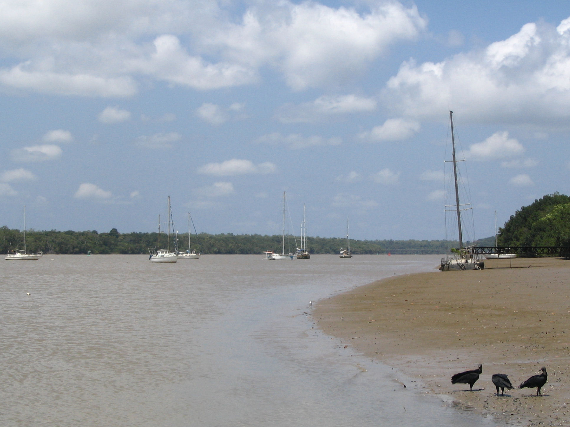 Coragyps atratus (American Black Vulture) on the shore of the Kourou River.